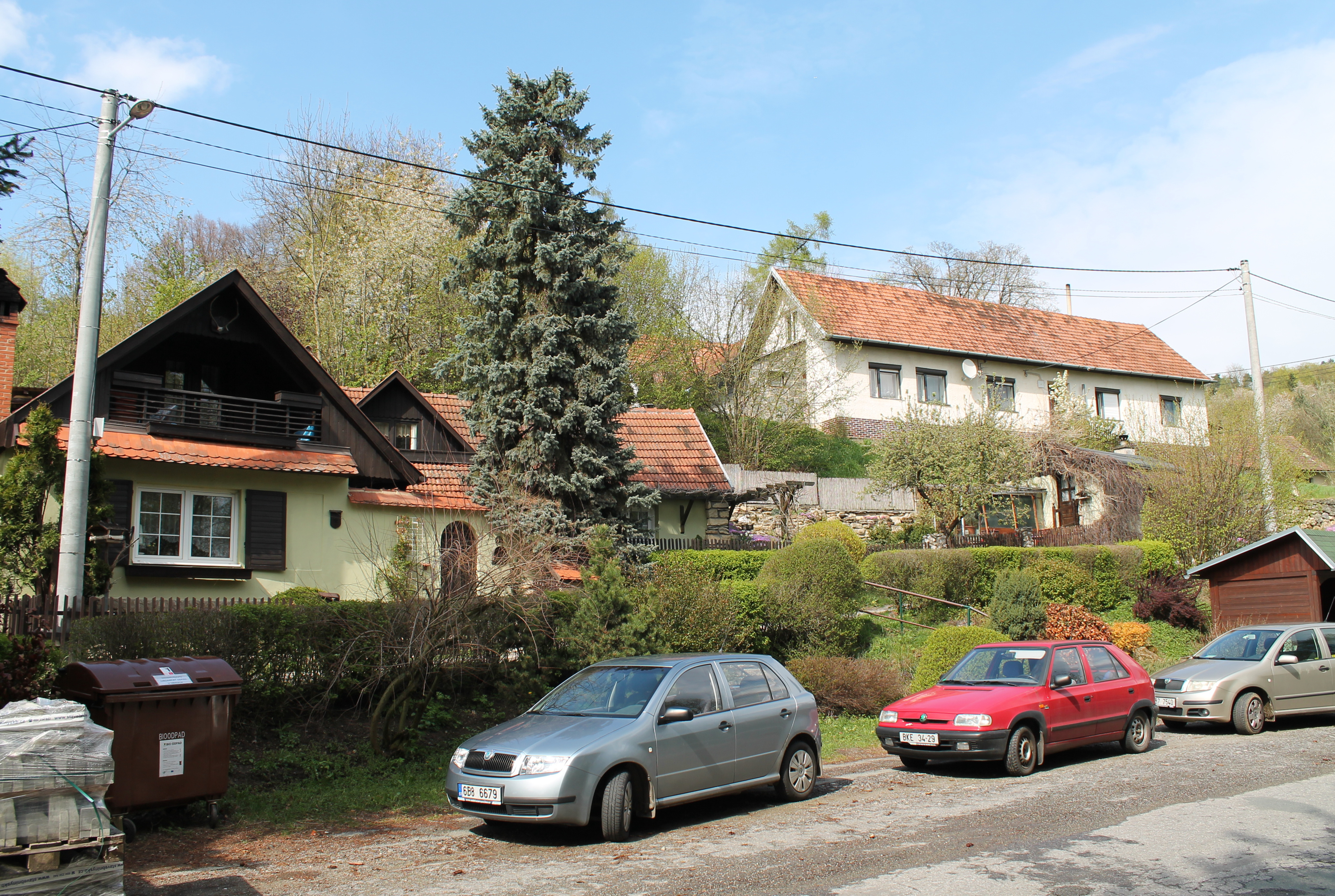 Dolní Poříčí, Křetín, Blansko District, Czech Republic This photograph was taken during a group photography field trip by Brno Wikipedians: 2017-04-29.